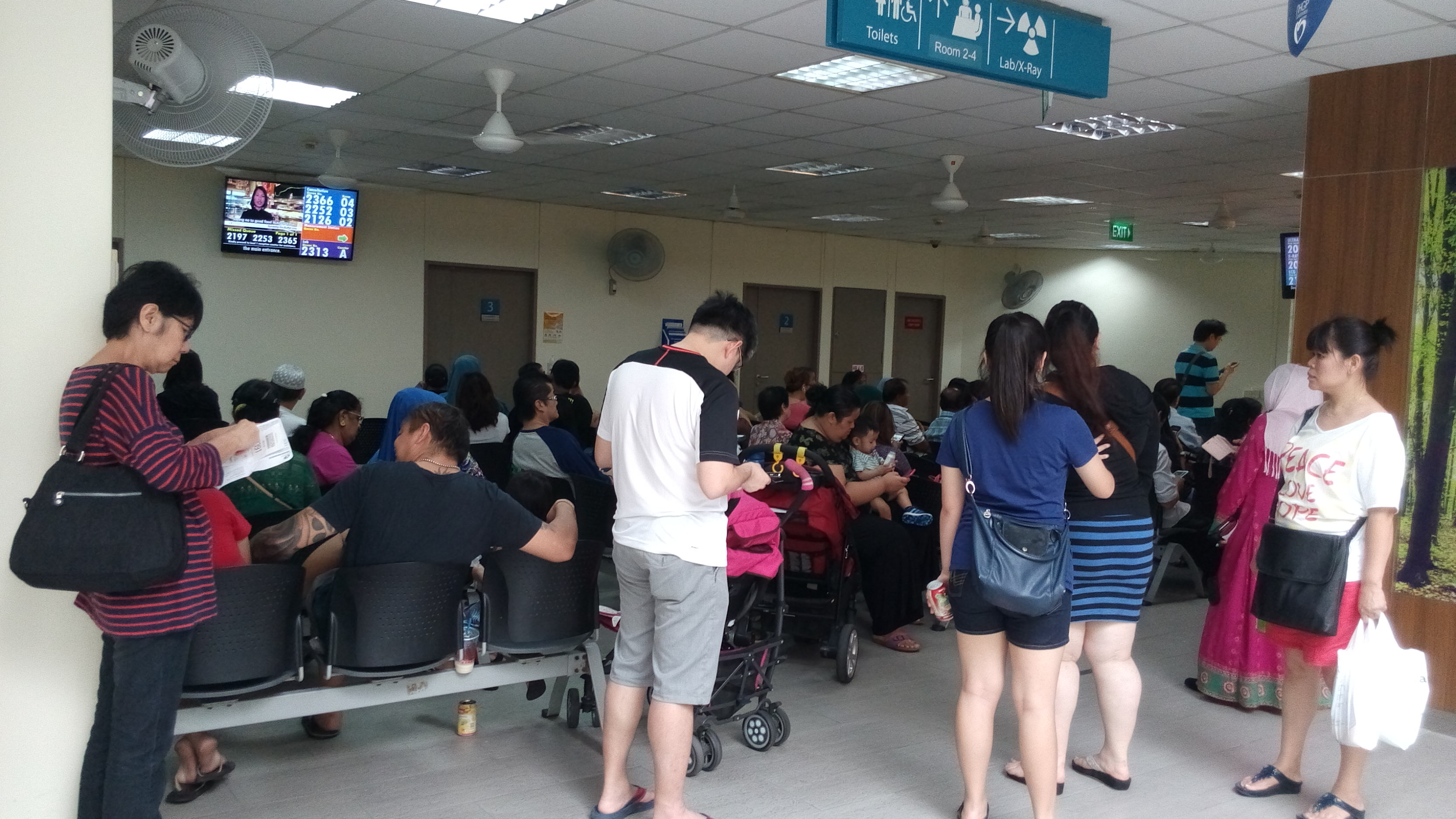 Woodlands Polyclinic in Singapore